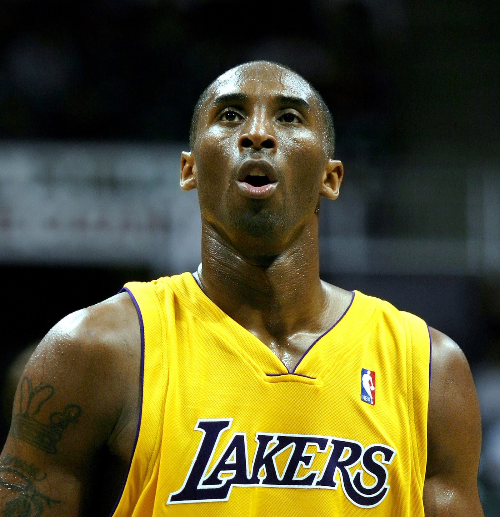 Kobe Bryant, Lakers shooting guard, stands ready to shoot a free throw during Tuesday nights pre-season game against the Golden State Warriors. Bryant was essential in bringing together a large point gap late in the second quarter, after the Warriors took the early lead.